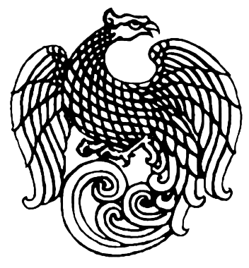 The Seal of Paksa Wayupak (Bird-of-paradise), the Government's Seal of Thai Ministry of Finance.